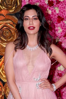 Chitrangada Singh graces Lux Golden Rose Awards 2018